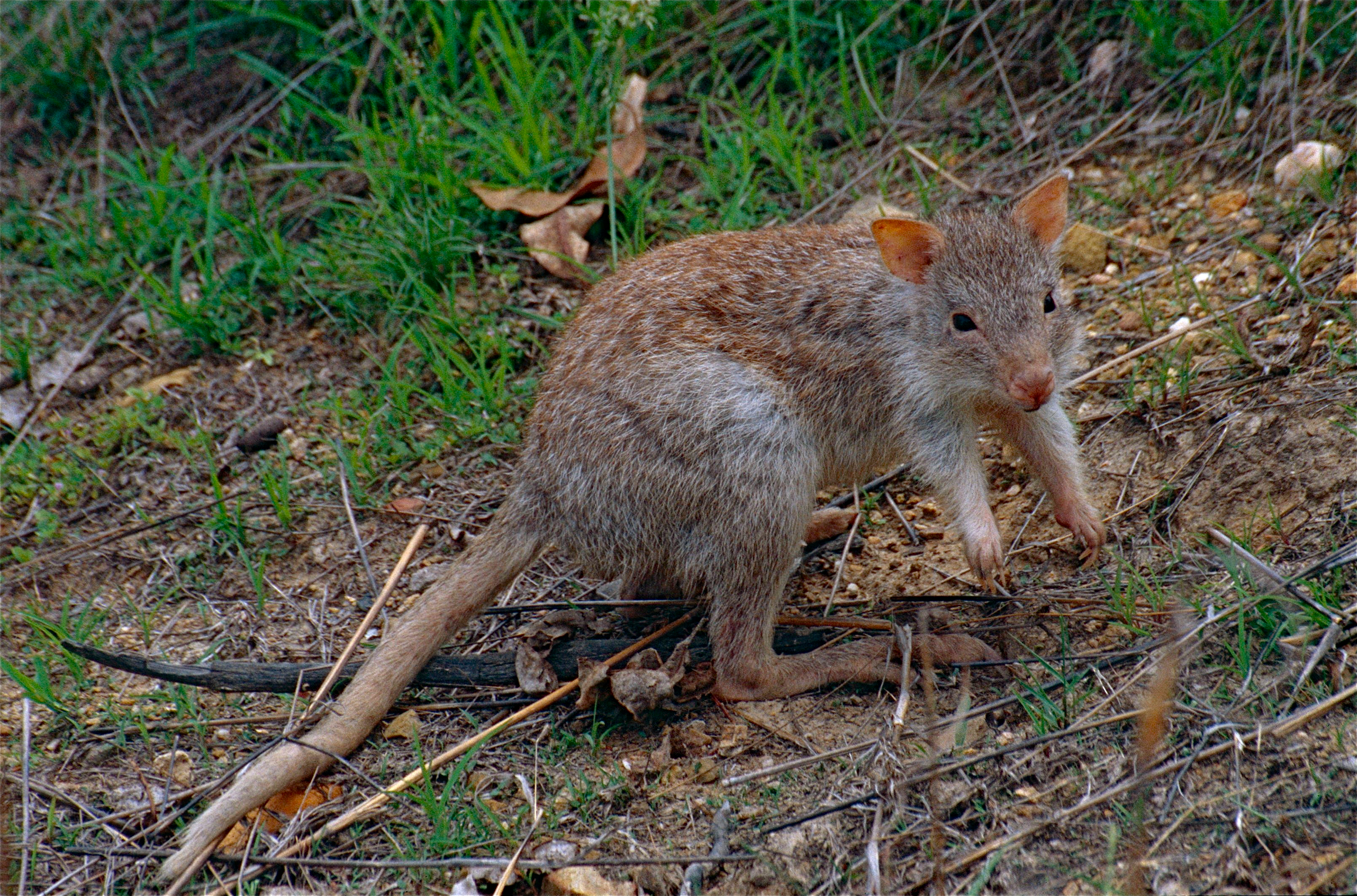 Mareeba Tropical Savanna and Wetland Reserve, Mareeba, North Queensland, AUSTRALIA Scanned Slide from Nov 2000